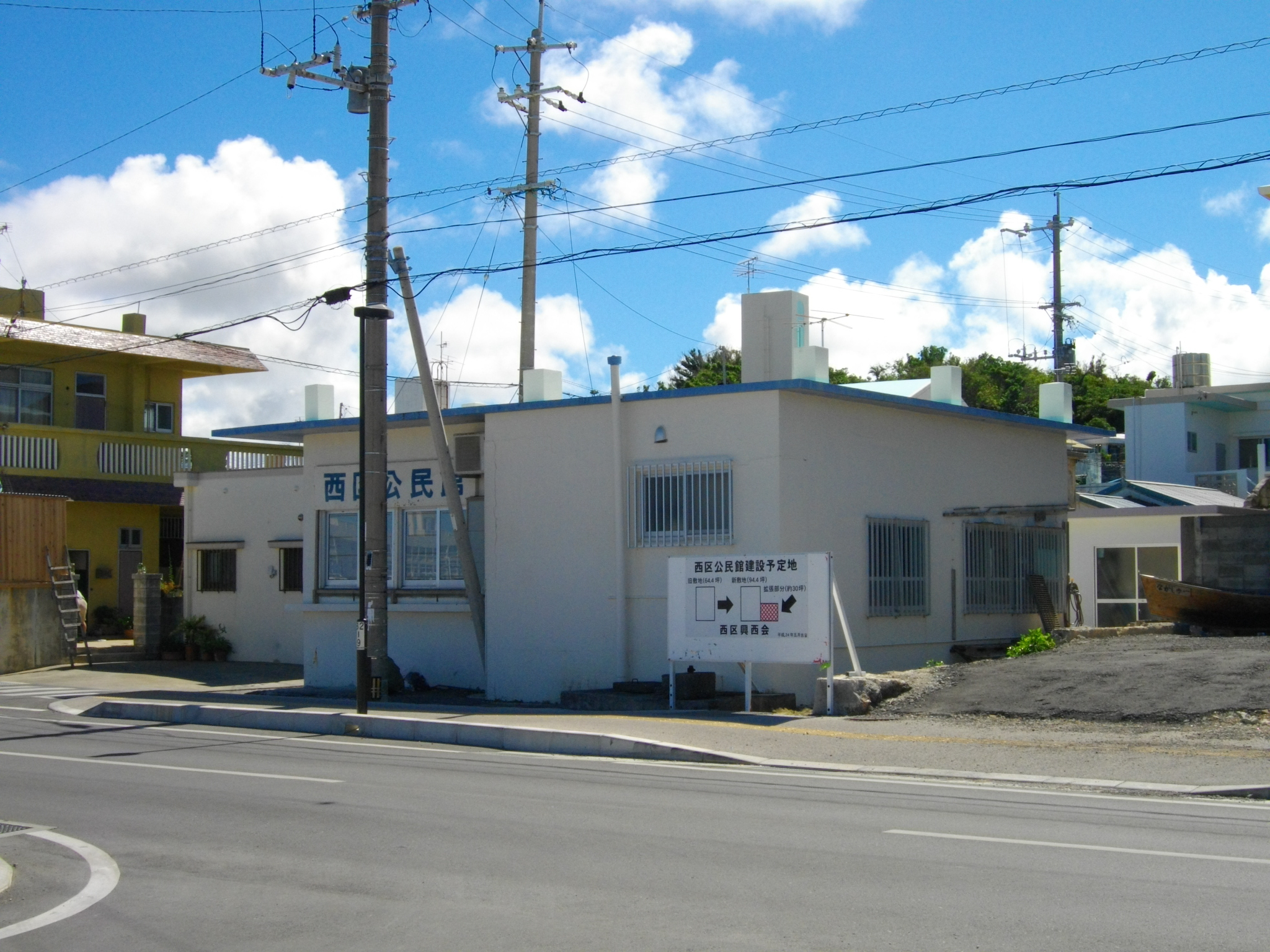 Itoman Nishi-ku Community Center